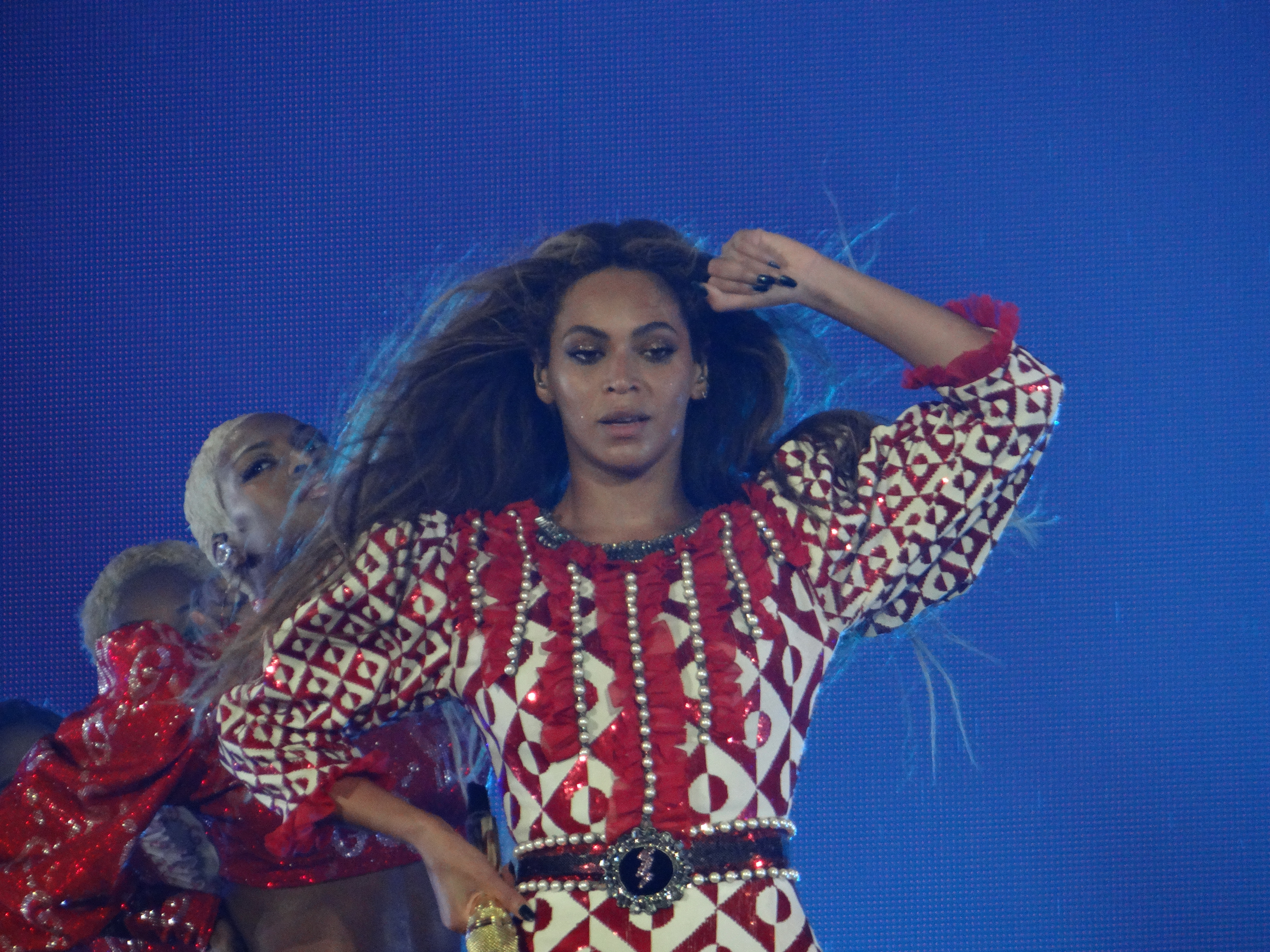 Beyoncé performing during The Formation World Tour in Raleigh, North Carolina on May 3, 2016